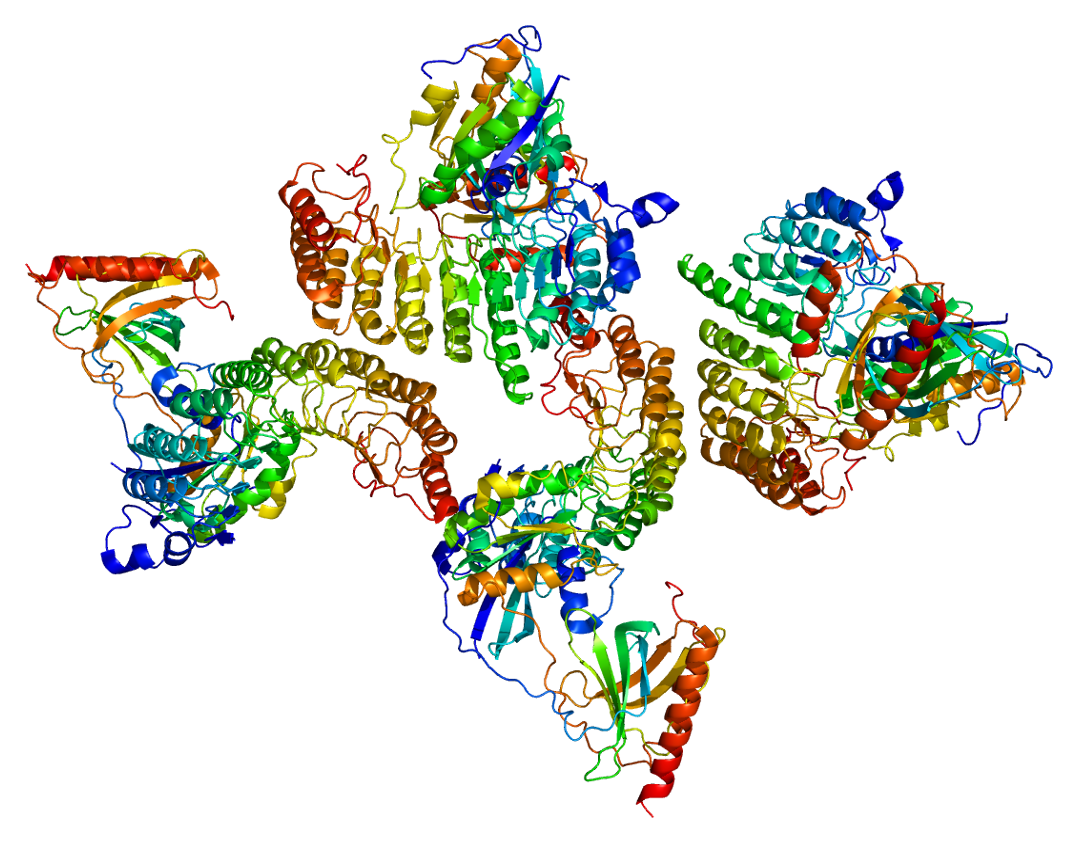 Structure of the RANBP1 protein. Based on PyMOL rendering of PDB 1k5d.